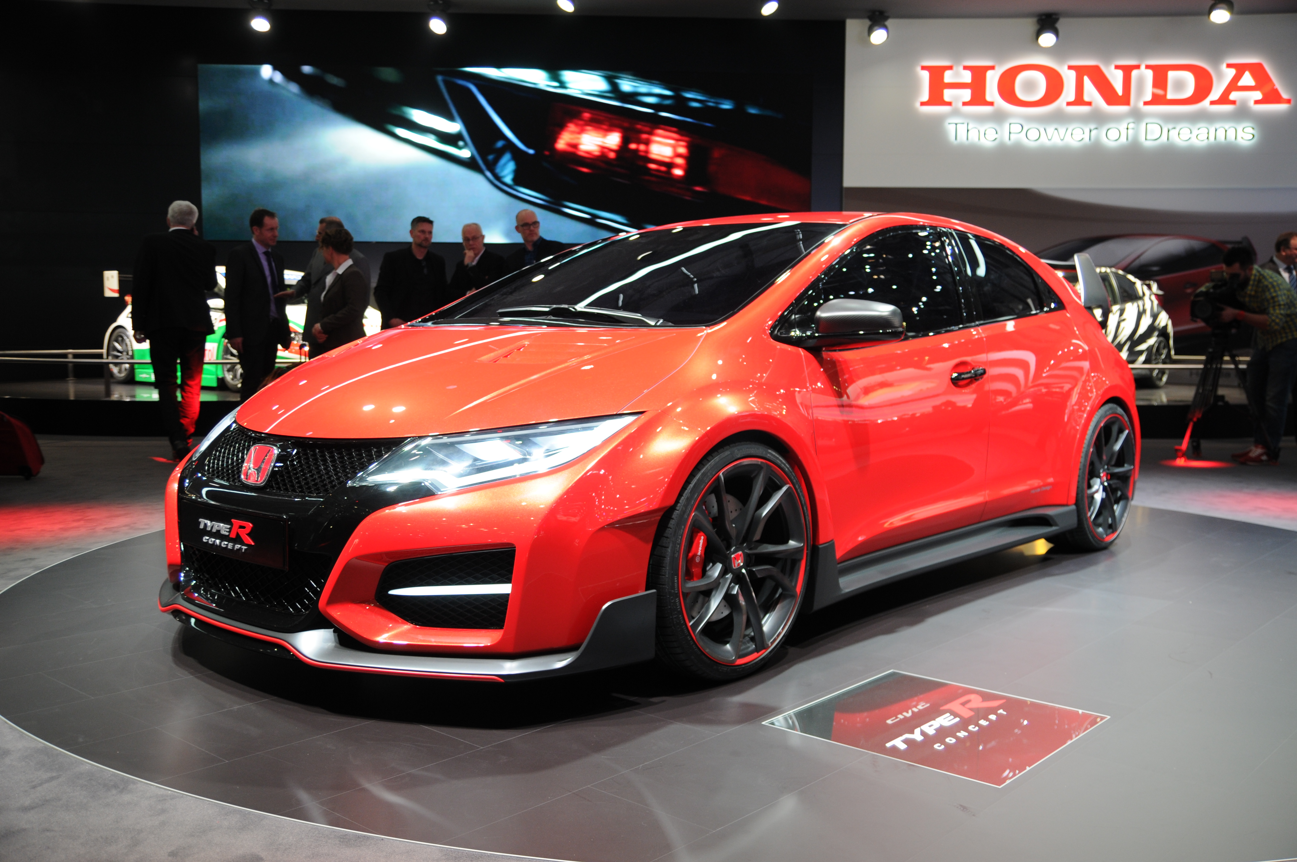 Geneva Motor Show 2014 (photo taken on the first press day)